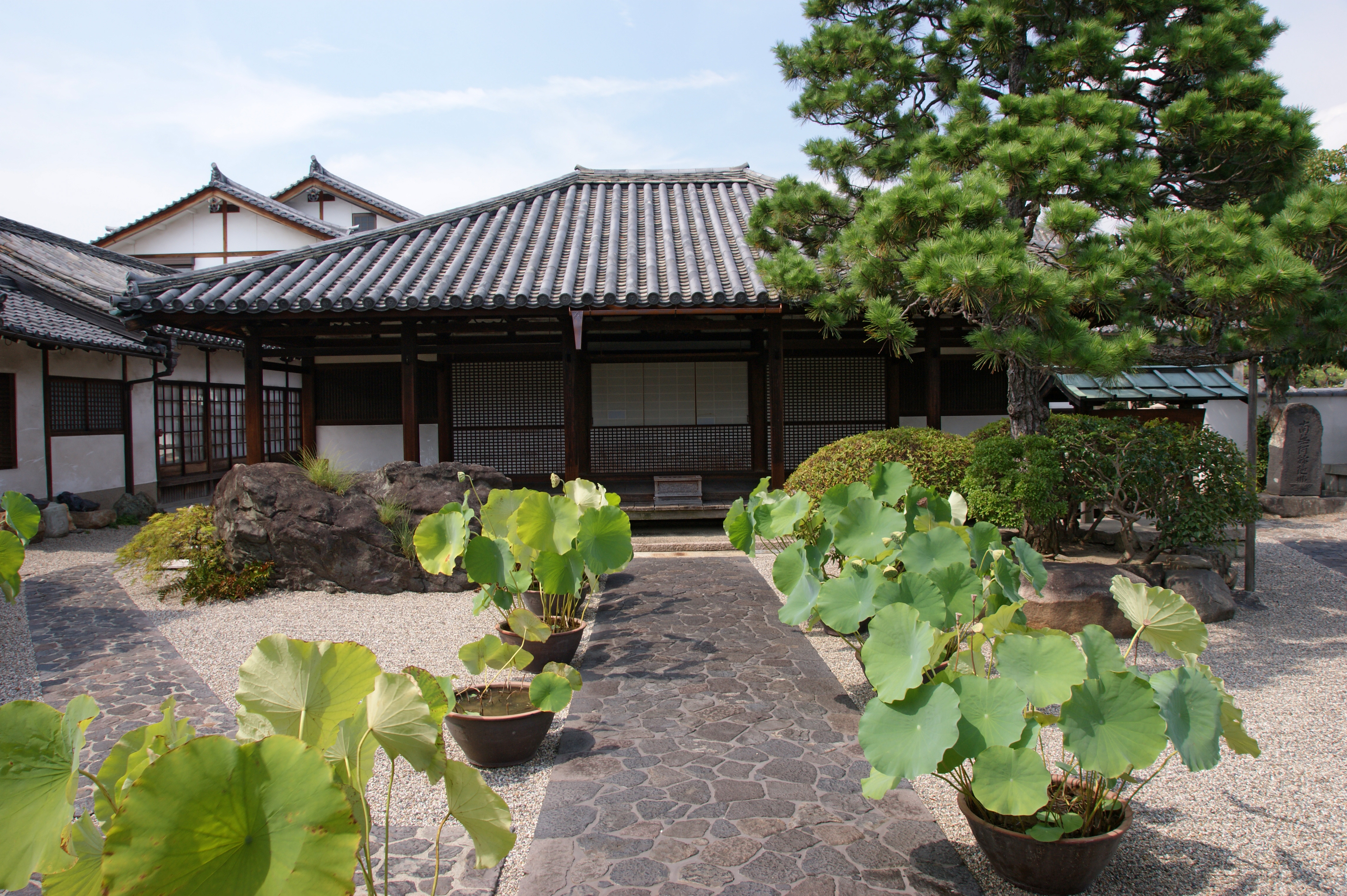 Jurinin, Nara, Nara prefecture, Japan